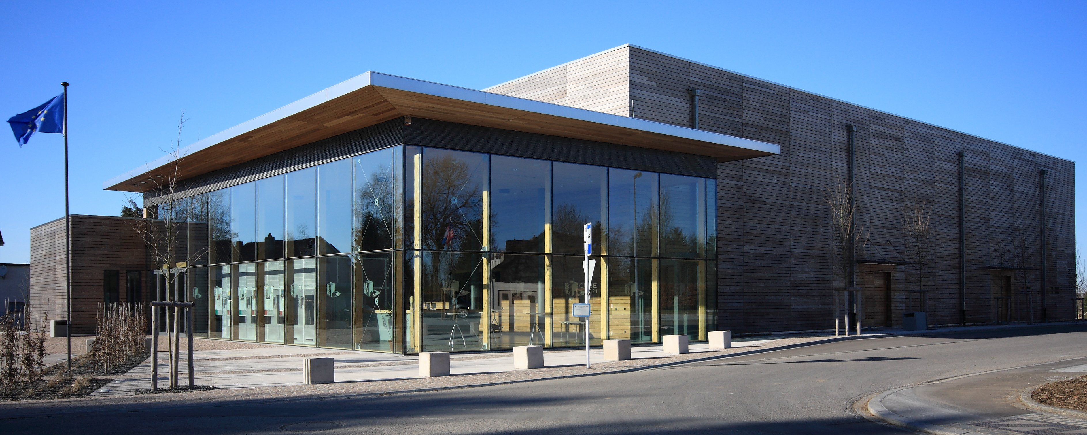 The regional culture centre "Cube 521" in Marnach, Luxembourg.